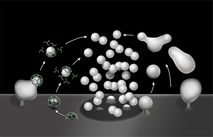 At left is CME. At right is bulk endocytosis followed by fragmentation of bulk endosomes to generate new vesicles. As membranes of bulk endosomes are expected to be enriched in SV proteins, functional SVs may be generated by this mechanism. The uncoated invaginations occurring near active zones and described by Watanabe et al. (2013a and 2013b) may represent a form of this type of clathrin-independent endocytosis. At subsequent exo–endocytic cycles, however, CME may help reestablish SV reformation with high fidelitiy.